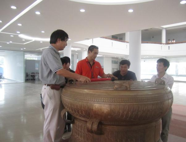 A Dong Son bronze drum within a building at Hoa Lac campus of FPT University.